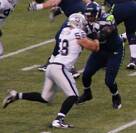 Frank Omiyale blocking Dave Tollefson.